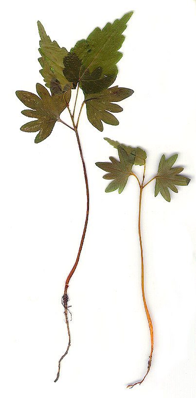 Tilia cordata seedlings